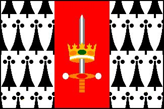 Flag of Carolina, PR